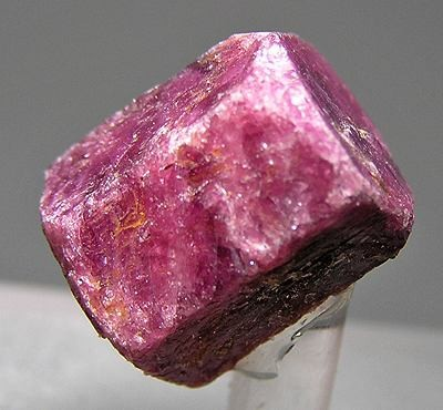 Corundum (Var.: Ruby) Locality: Madagascar (Locality at ) Size: 1.4 x 1.2 x 0.8 cm. A very sharp hexagonal floater crystal of ruby corundum from Madagascar, doubly-terminated and complete.